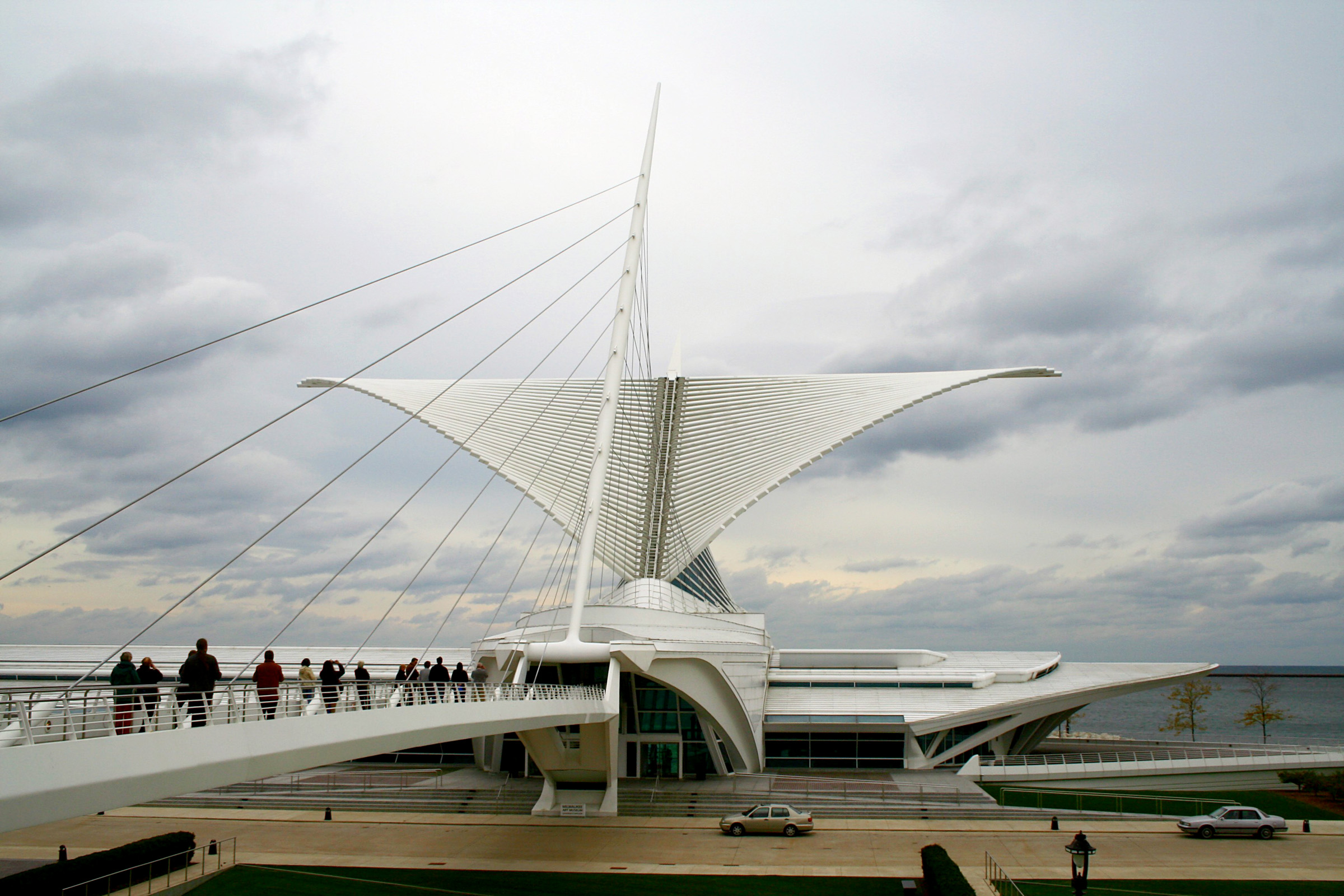 Milwaukee Art Museum, Burke brise soleil above the Quadracci Pavilion, version 1img_2349